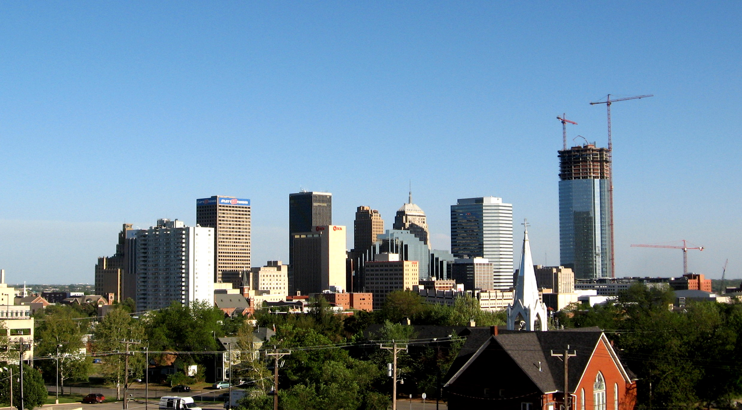 Downtown Oklahoma City, looking southeast